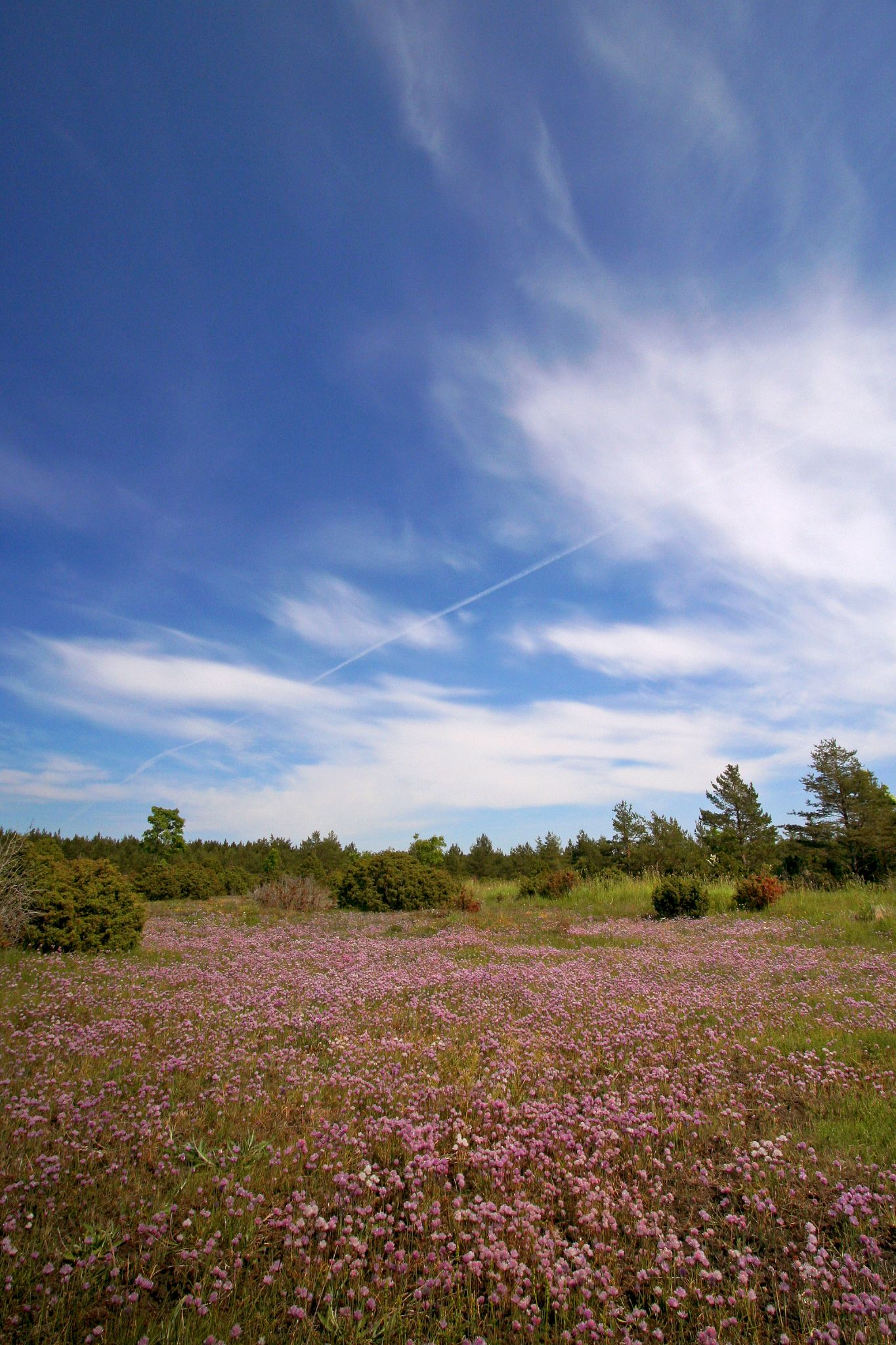 A landscape scene from the Vilsandi National Park during summer, Saaremaa, Estonia.